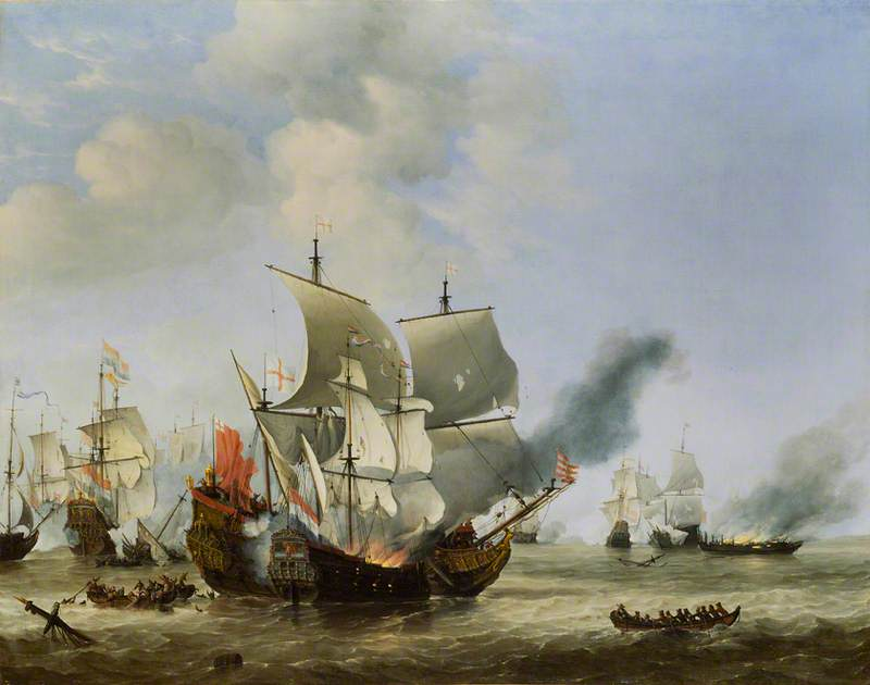 The Burning of the Andrew at the Battle of Scheveningen, by Willem van de Velde the younger WLC P77 The picture illustrates an incident from the Battle of Scheveningen (or Ter Heide) which took place between 31 July and 10 August 1653 and formed the last engagement of the first Anglo-Dutch War (1652–1654). In the foreground, the Dutch fireship, the 'Fortuin' ('Fortune'), is about to ram the Andrew, commanded by the English Rear-Admiral of the white squadron, Thomas Graves. Fireships operated like floating bombs.They were crammed with combustible material and carried cannon rigged to explode simultaneously. The fireship would set course to intercept an enemy ship, the crew igniting the charges and abandoning ship at the last moment. Here the English crew escapes the impending danger in a rowboat on the left, while the crew of the 'Fortuin' escapes on the right. van de Velde II, Willem; The Burning of the 'Andrew' at the Battle of Scheveningen; The Wallace Collection; Mediumː oil on canvas Measurementsː H 84.6 x W 108.1 cm Accession numberː P77 Acquisition methodː acquired by Richard Seymour-Conway, 4th Marquess of Hertford, 1865; bequeathed to the nation by Lady Wallace, 1897 Painting